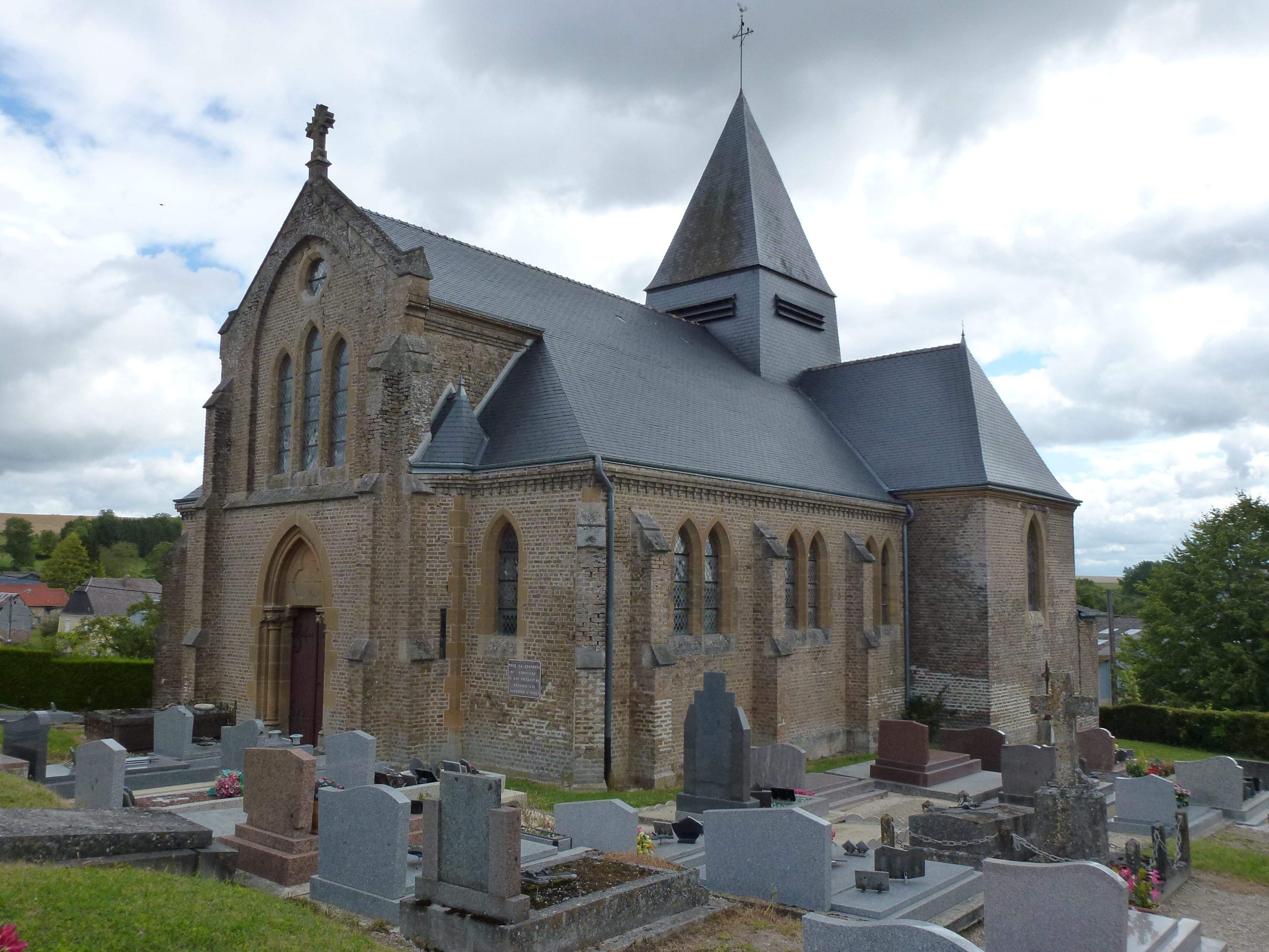 Chappes (Ardennes) église